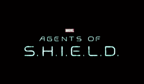 The text logo for Agents of S.H.I.E.L.D. seen throughout the fifth season.